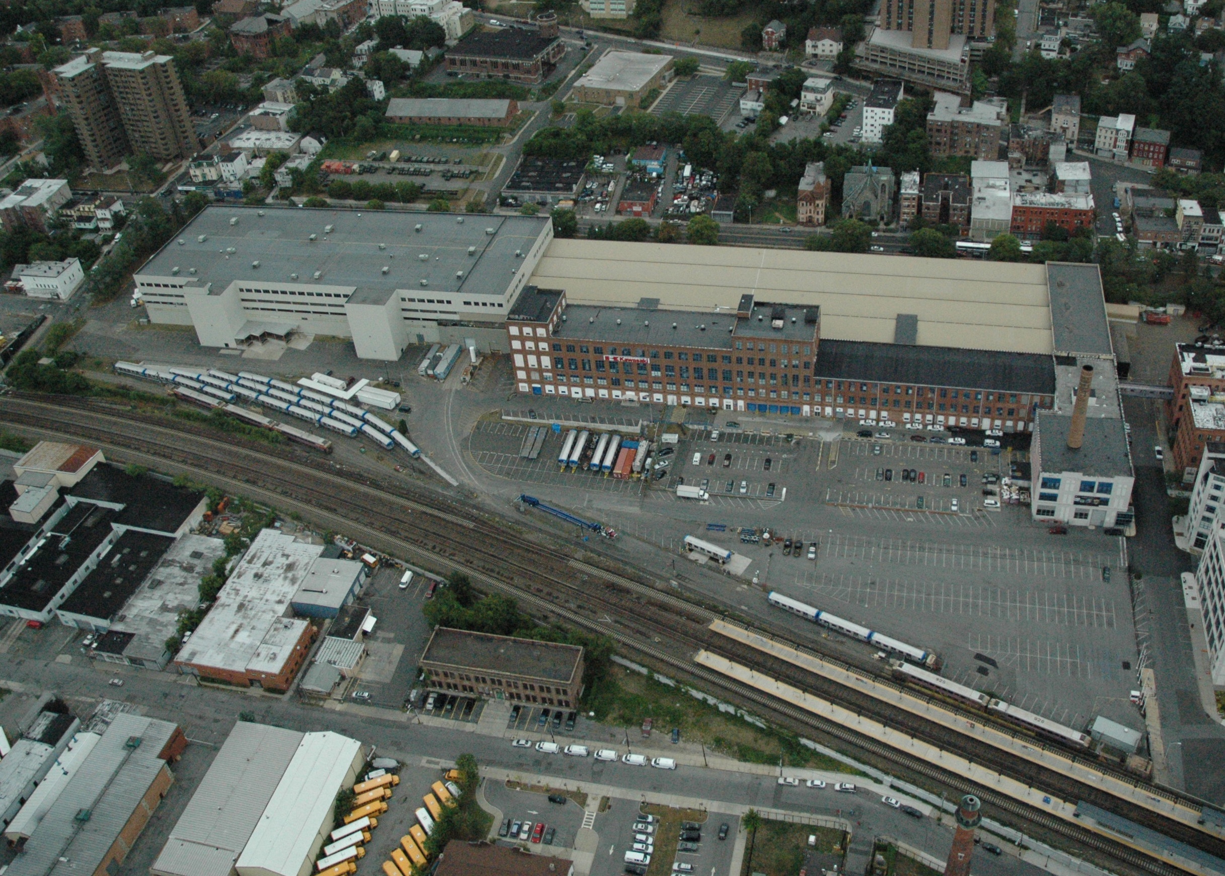 The Kawasaki Rail Plant in Yonkers, New York. In the lower right hand corner is the Yonkers train station, served by the Metro-North Railroad.